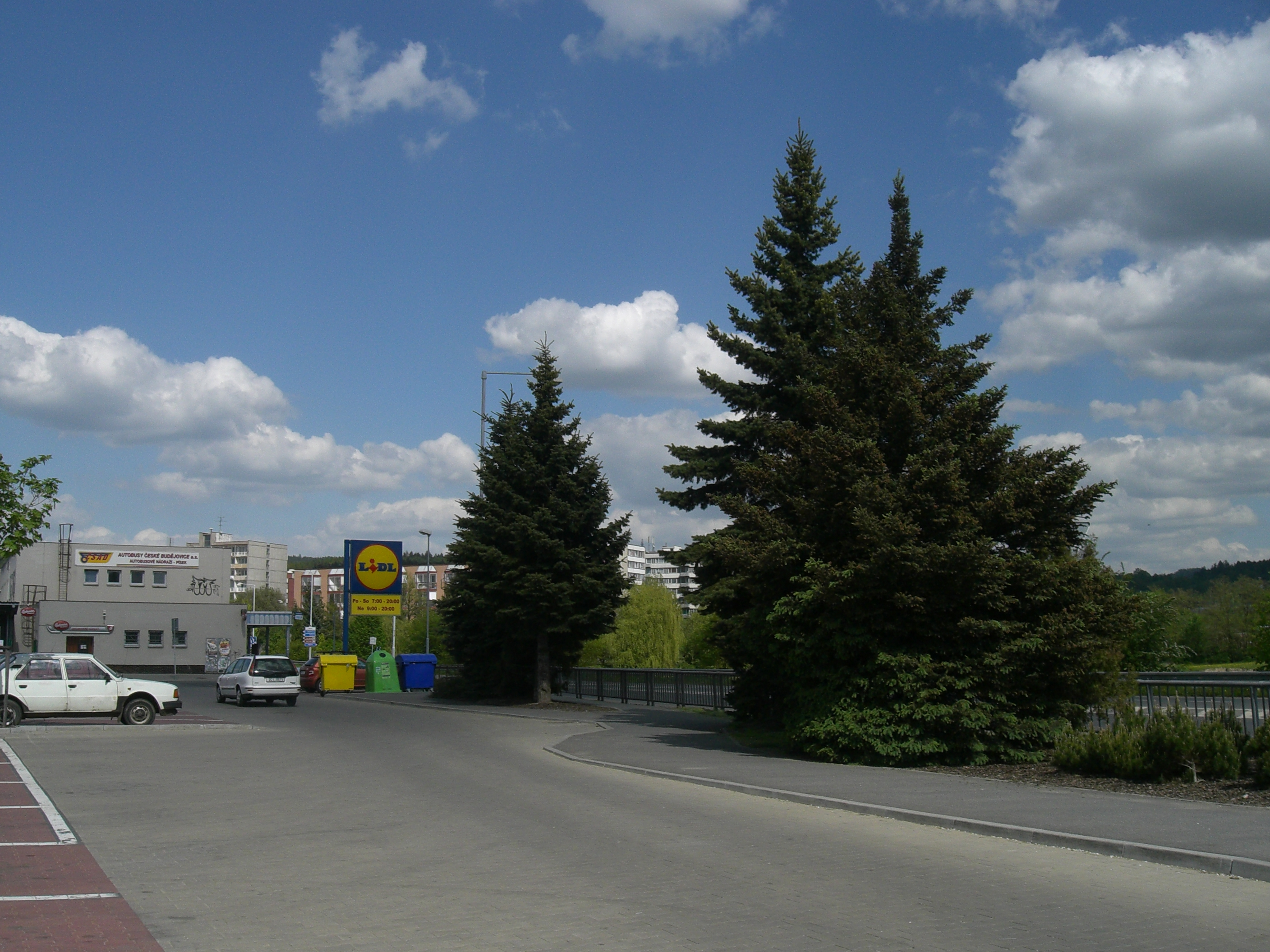 Picea pungens near supermarket Lidl in Písek, Czech Republic. Some of them were illegally chop down.